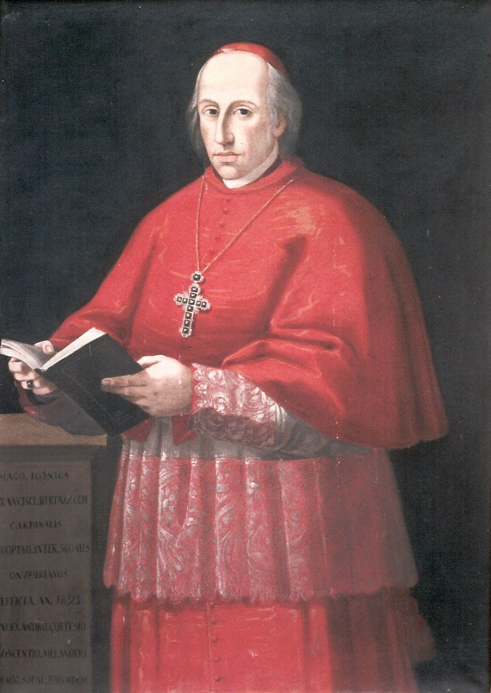 Francesco Bertazzoli (1754-1830), cardinal of the Roman Catholic Church